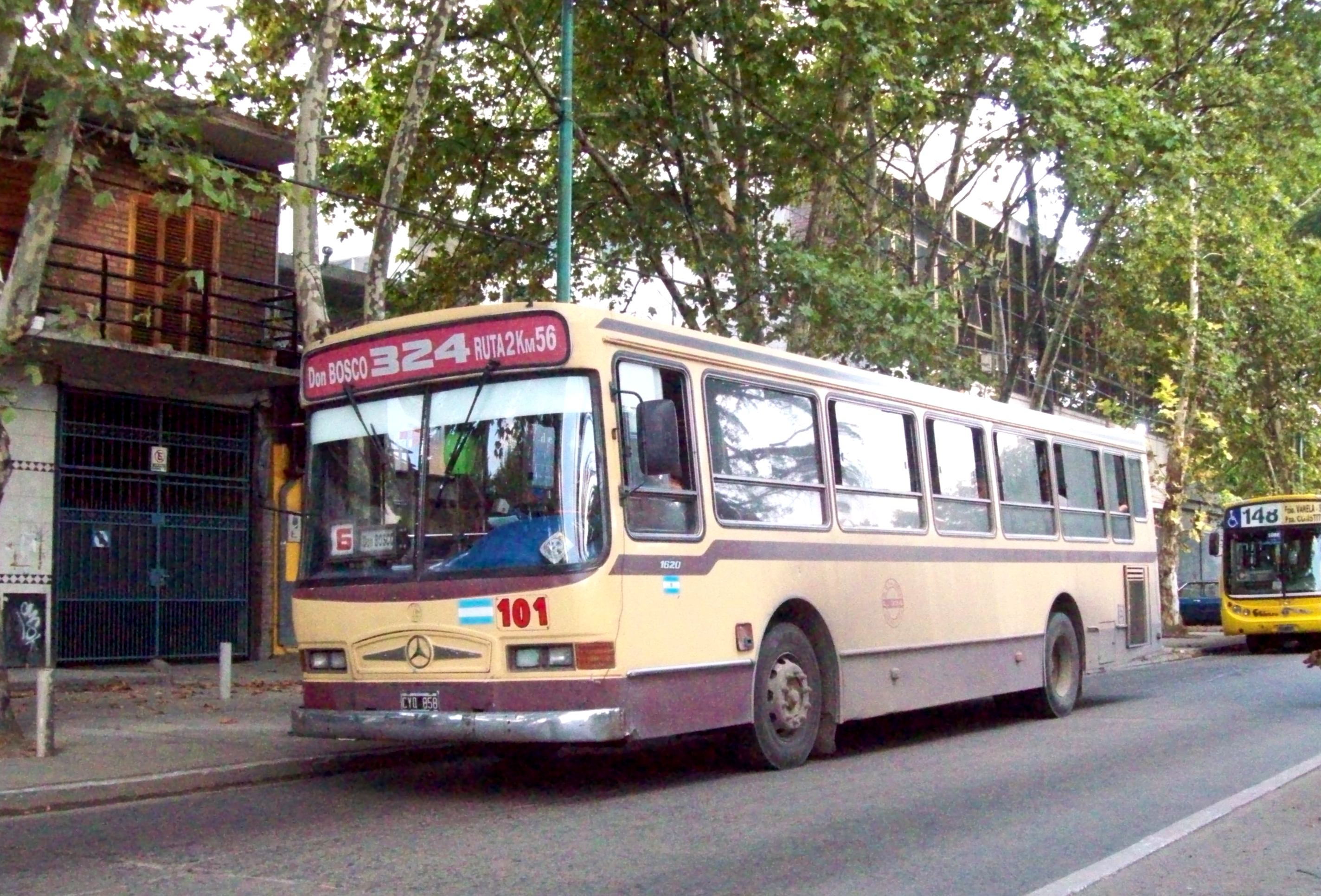 Bus (reg. CYQ 858, #101) with Mercedes-Benz OF 1620 chassis in Buenos Aires Province, Argentina. Colectivo, line 324, Micro Ómnibus Primera Junta S.A. operator.